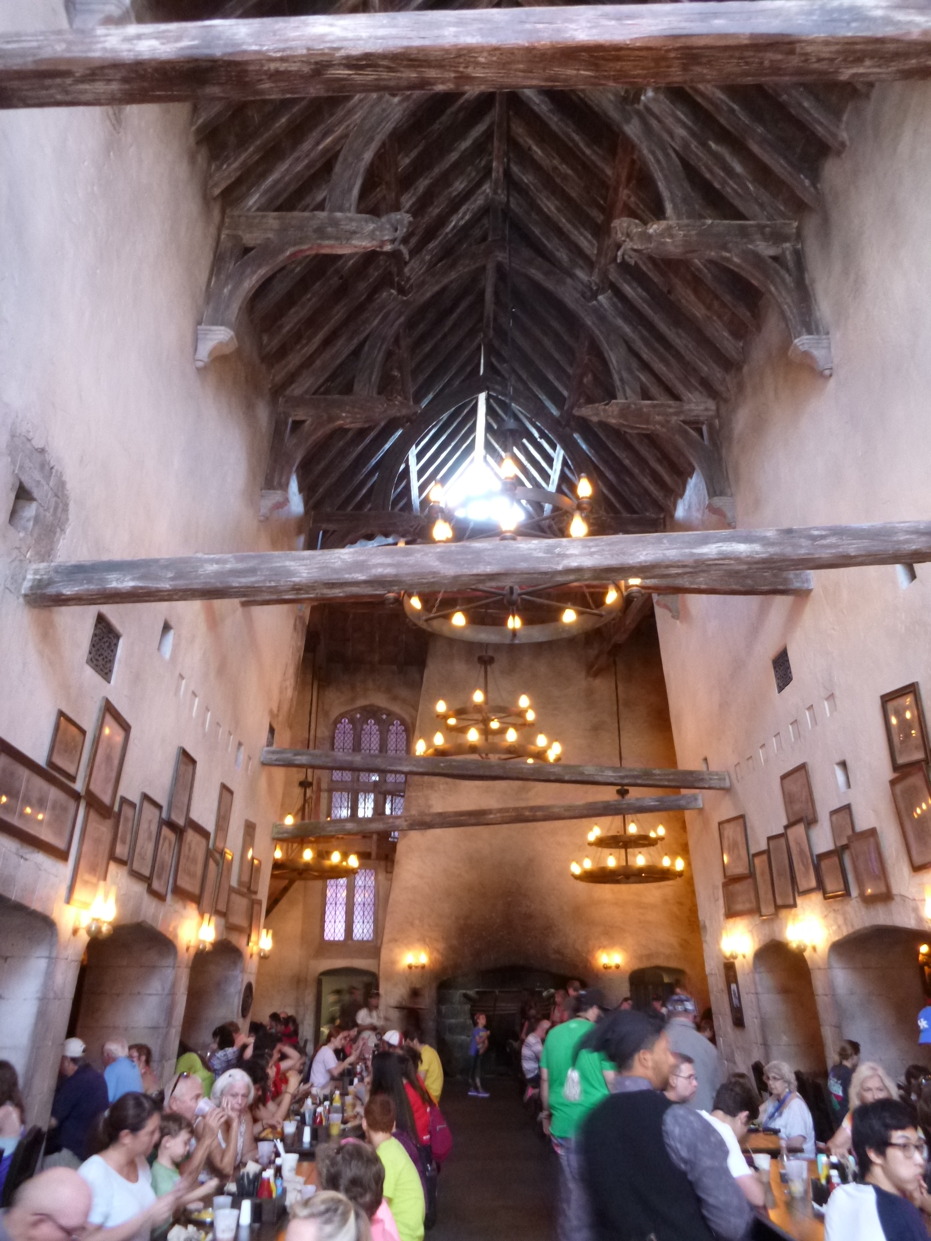 The Leaky Cauldron at Diagon Alley